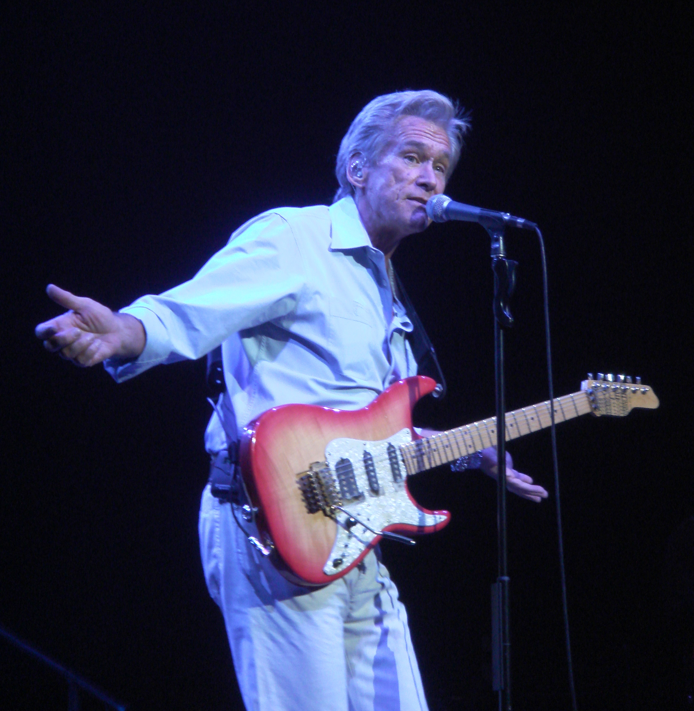 Bill Champlin, American singer, guitarist, and keyboardist for the band Chicago, during a performance at the Dodge Theatre in Phoenix, AZ